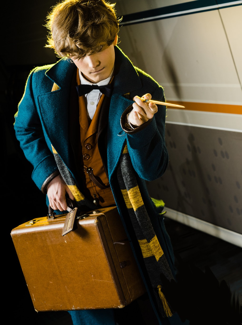 Cosplay of Newt Scamander (Fantastic Beasts)